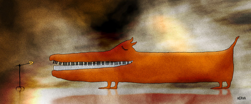 Grand Piano